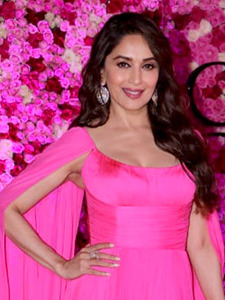 Madhuri Dixit graces Lux Golden Rose Awards 2018